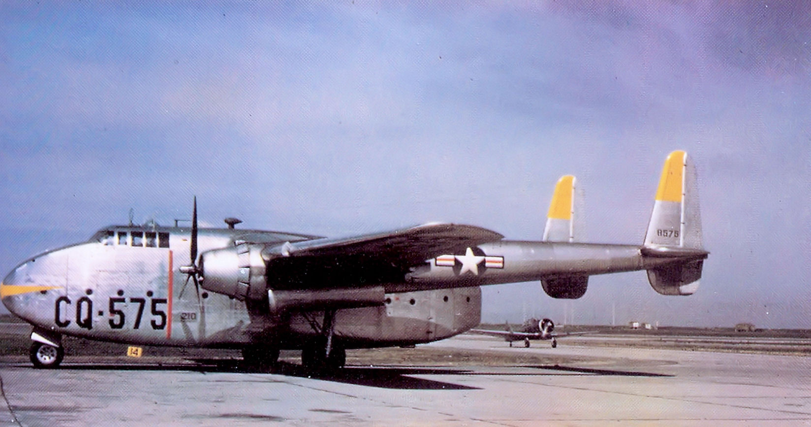 314th Troop Carrier Group Fairchild C-82A Packet Ashiya AB, Japan 48-575